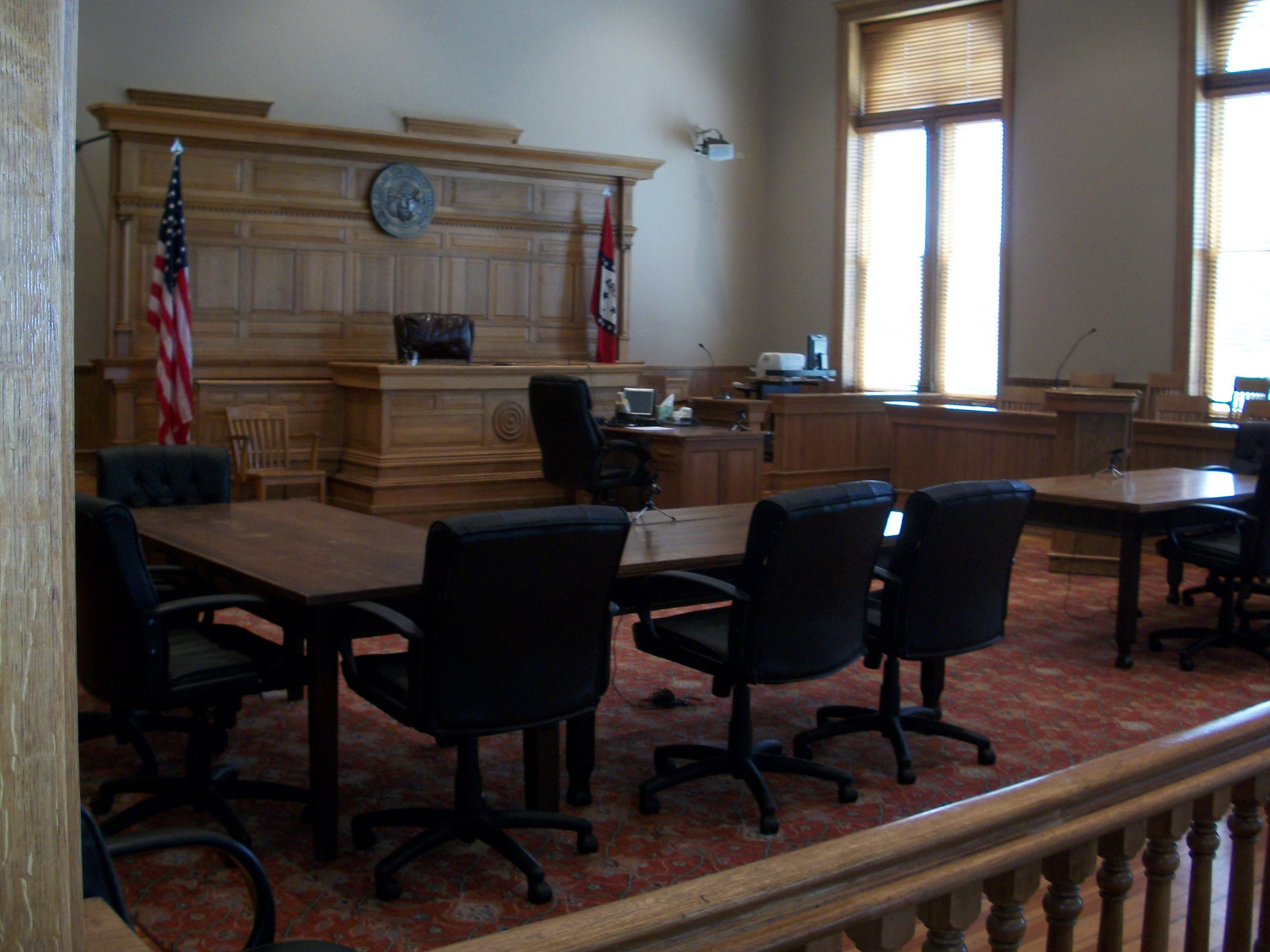 Courtroom in the historic Washington County Courthouse in Fayetteville, Arkansas.